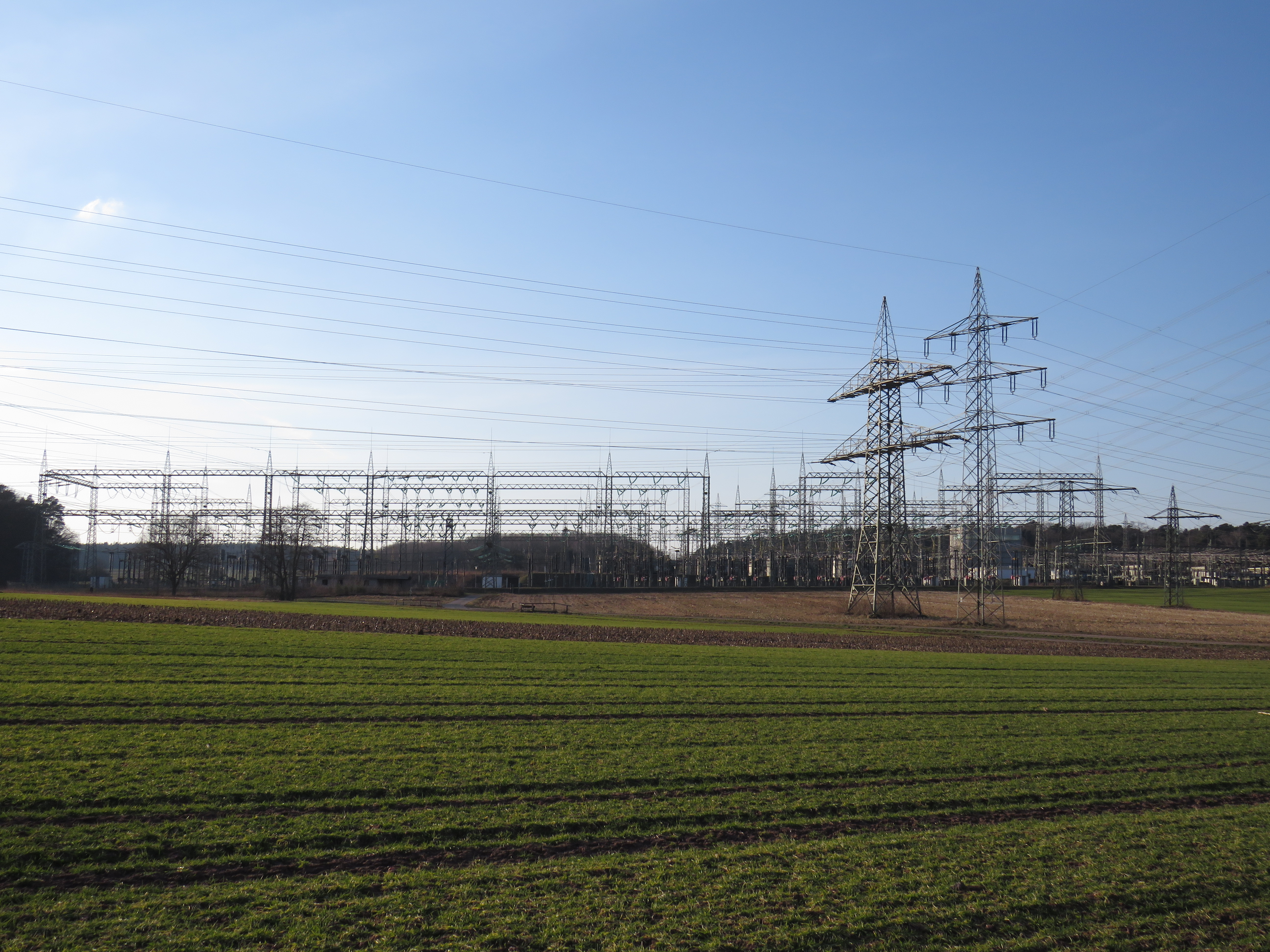 Electricity pylon near Urberach substation